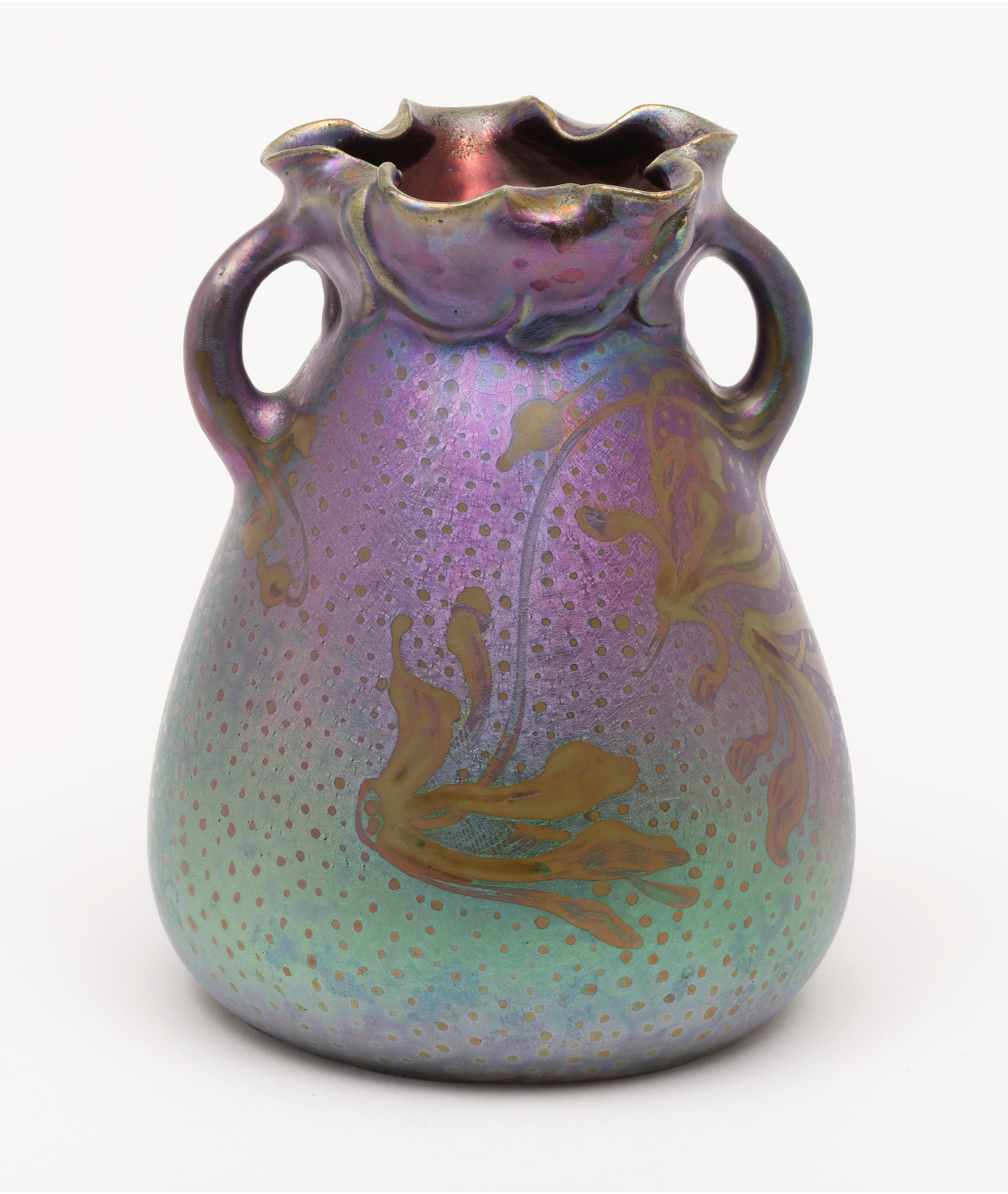 Buff-gray clay body, cast. Slightly bulbous body, tapering to neck with crimped molded leaf rim; two small curved handles at shoulder to rim; no foot. Design on front and back of honeysuckle blossoms and vines against a random dot pattern painted in gold. Iridescent background shades from a blue-green to a lavender-purple towards the shoulder. Interior covered with lustrous copper-red glaze. Bottom glazed a greenish-yellow high glaze; unglazed foot rim. Cracklature. Two-handled